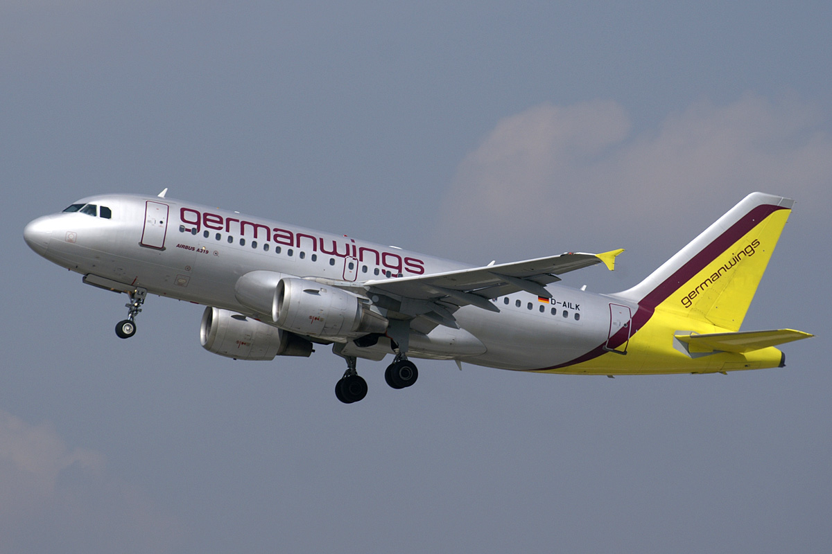 Germanwings Airbus A319 D-AILK